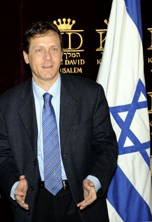 Special Envoy George Mitchell With Israeli Minister of Social Welfare Herzog at the King David Hotel, Jerusalem, 2009.